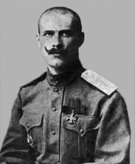 A photo of Yuriy Kapkan, colonel of Ukrainian People's Army